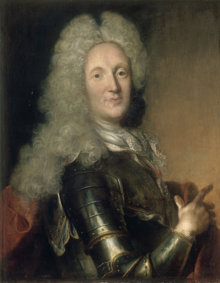 Portrait of Nicolas Catinat, Seigneur de Saint-Gratien (1637–1712) as Marshal of France